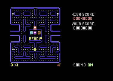 paku paku screenshot (public domain)